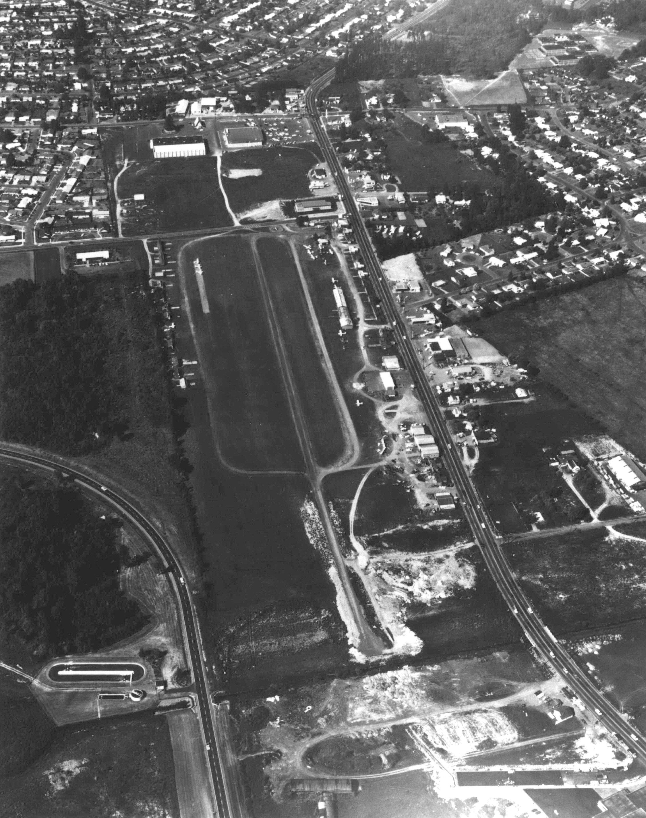 Beaverton Airport, 1966. Historical images of Beaverton, Oregon.